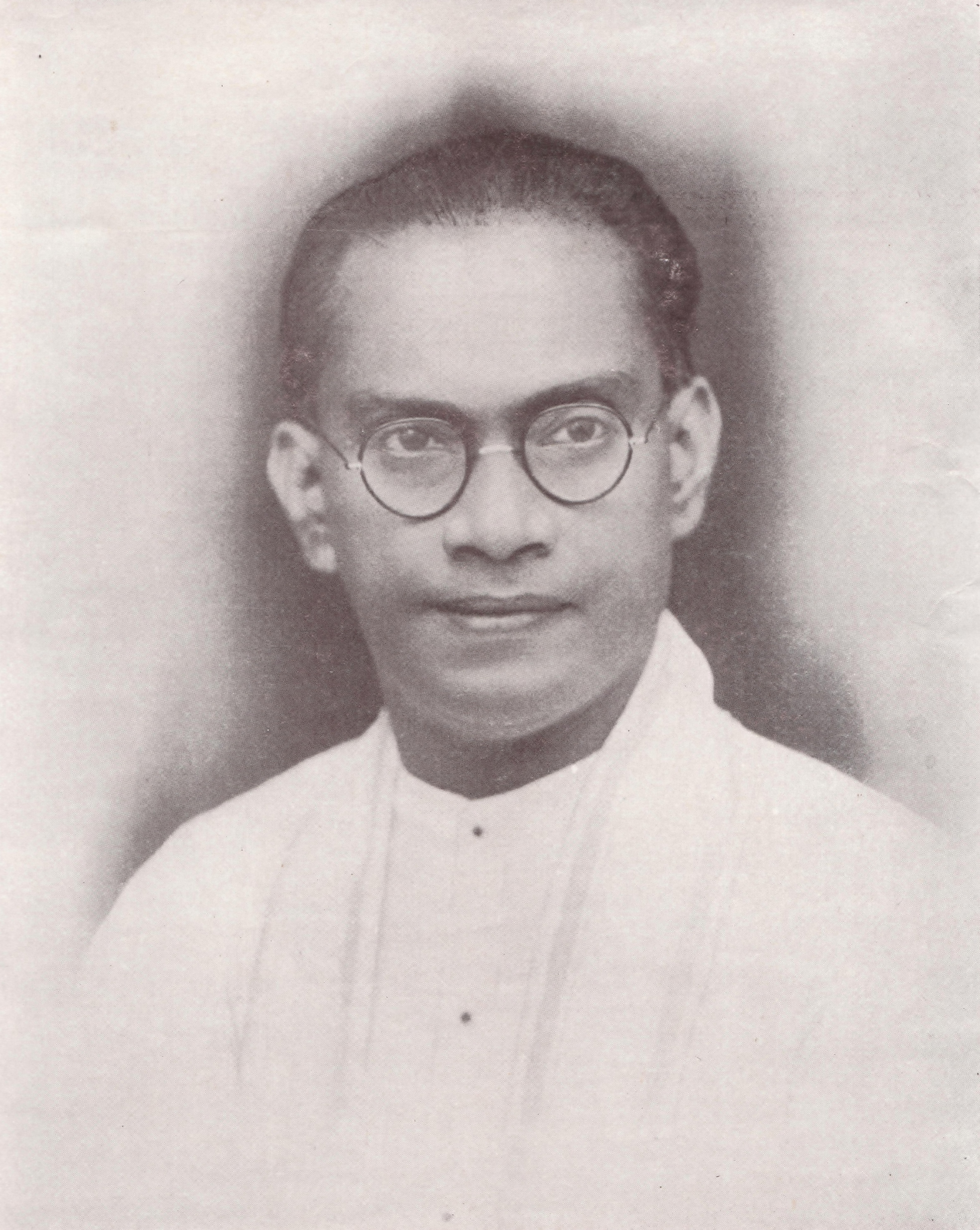 Official Photographic Portrait of fourth Prime Minister of Ceylon (Sri Lanka),Hon S.W.R.D.Bandaranayaka-served from 1956 to until his assassination in 1959